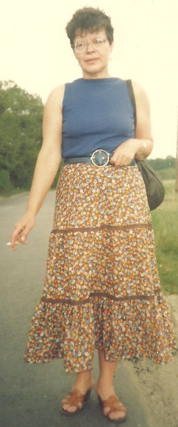 Małgorzata Szapakowska